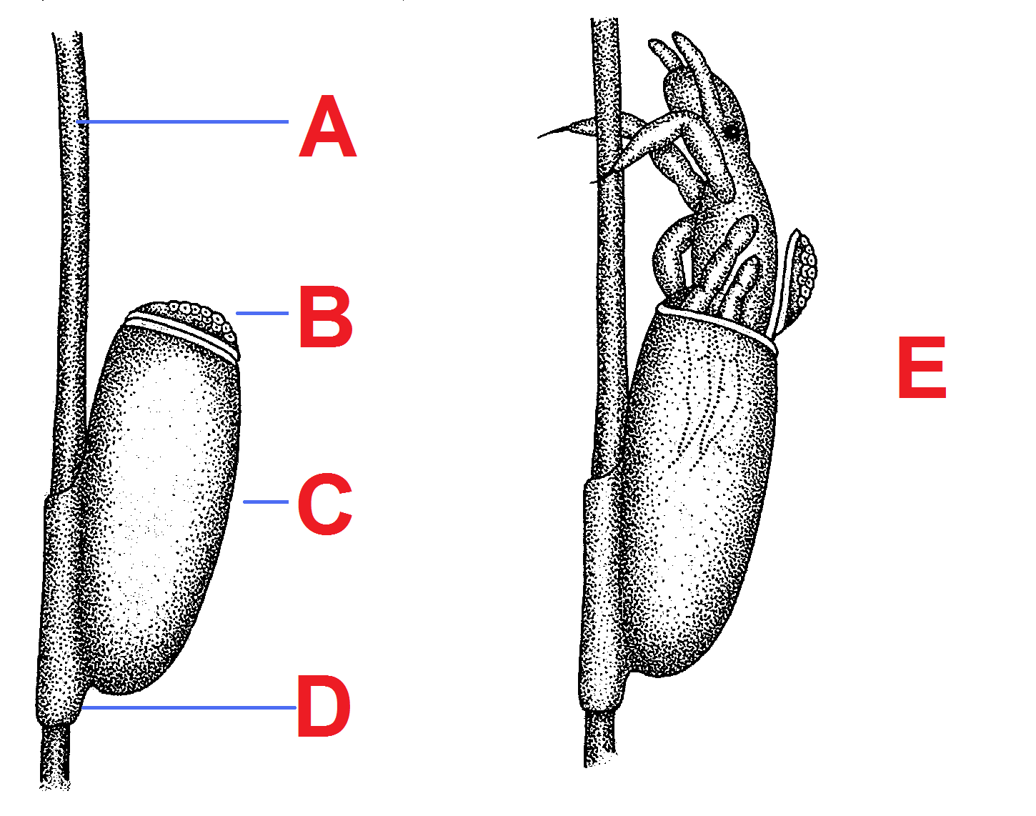 This illustration depicts the morphologic characteristics of a typical louse egg, and the manner in which it is attached to the mammalian host’s hair shaft. The eggs are glued to the hairs of the mammalian host. All louse eggs have a cap. During the hatching process the young louse pushes at the “cap” from the inside forcing off the cap, thereby, enabling the nymphal louse to emerge from the egg.